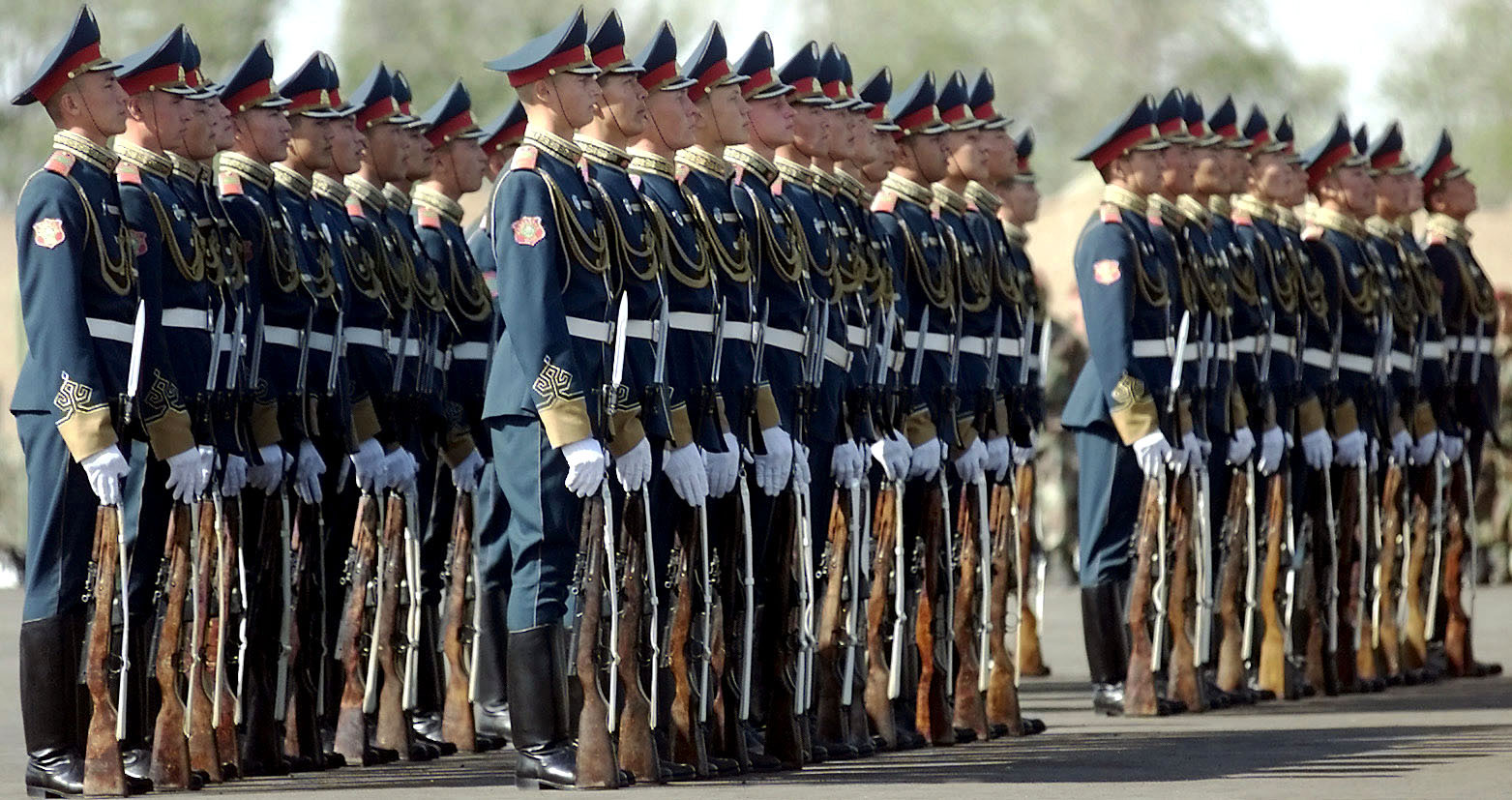 Members of the Kazakhstan Republican Guard perform precision drill routines during CENTRASBAT (Central Asian Peacekeeping Battalion) 2000 opening ceremonies.